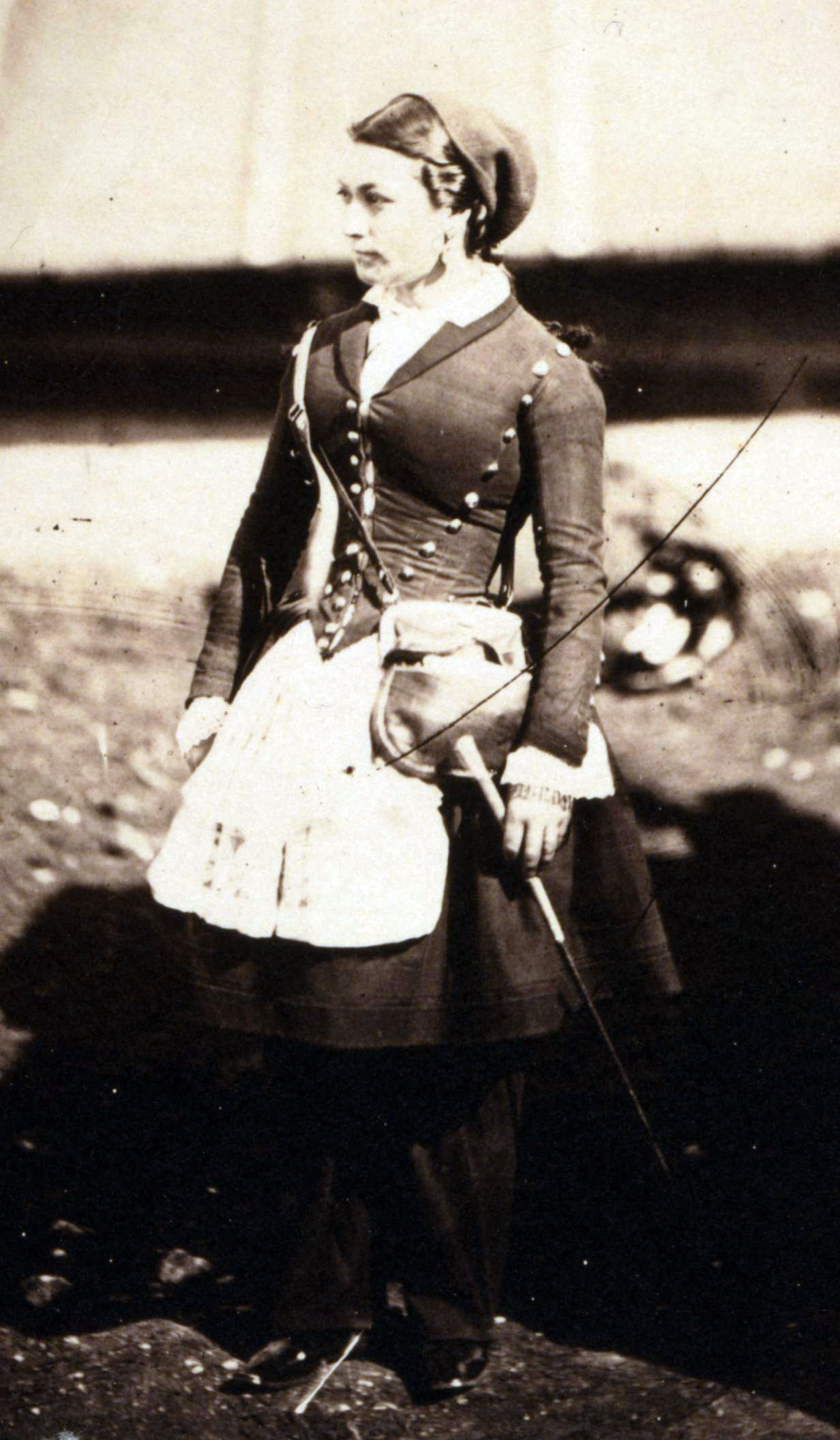 Full-length portrait of a French cantinière facing left wearing Zouave regiment dress.